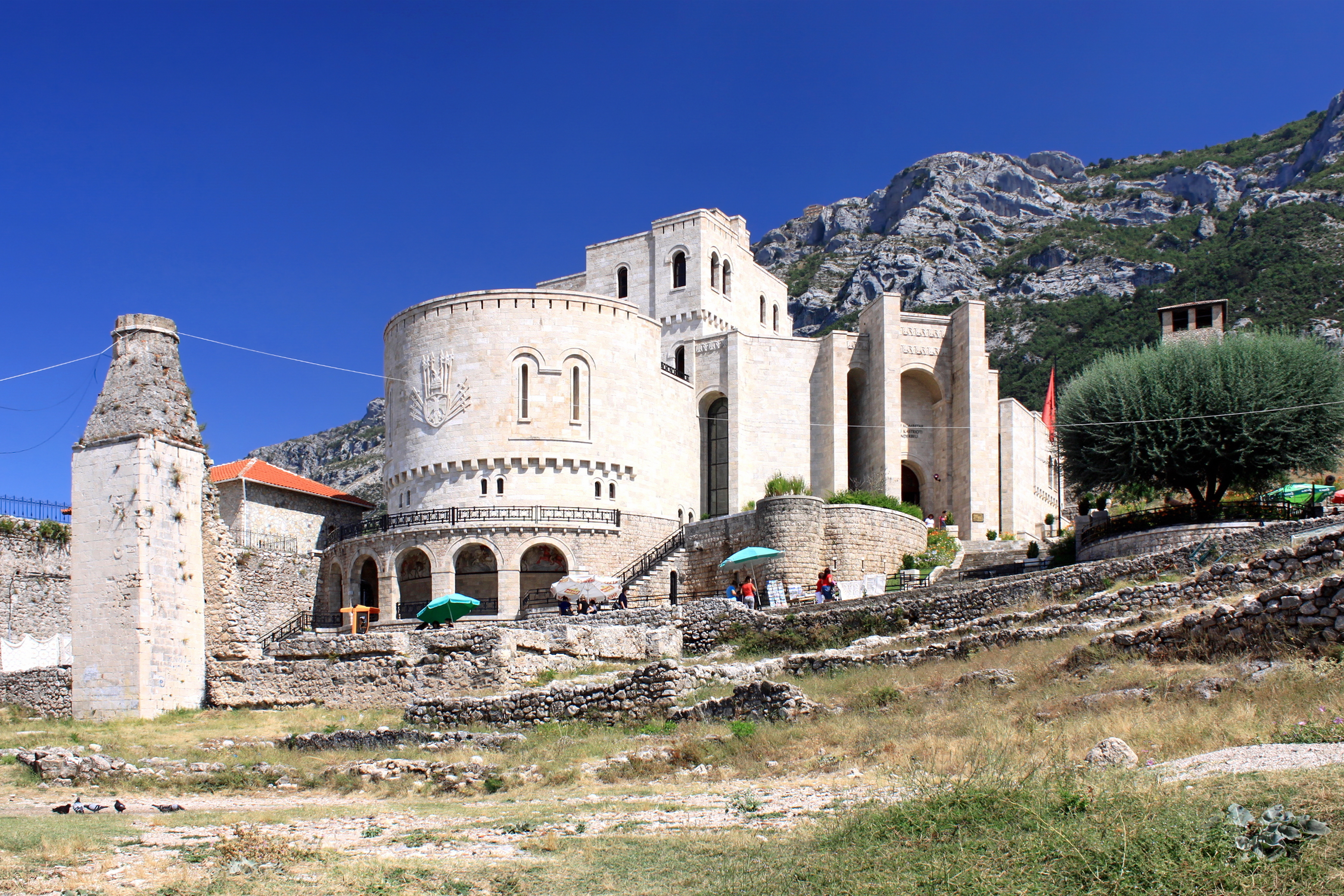 Skanderbeg Museum, Krujë, AlbaniaShqip: Muzeu Kombëtar Gjergj Kastrioti Skënderbeu, Kruja, Shqipëria